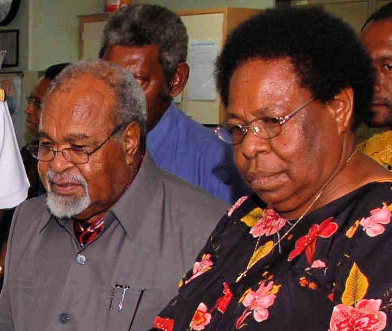 Papua New Guinea Prime Minister Michael Somare and his wife, Lady Veronica Somare.